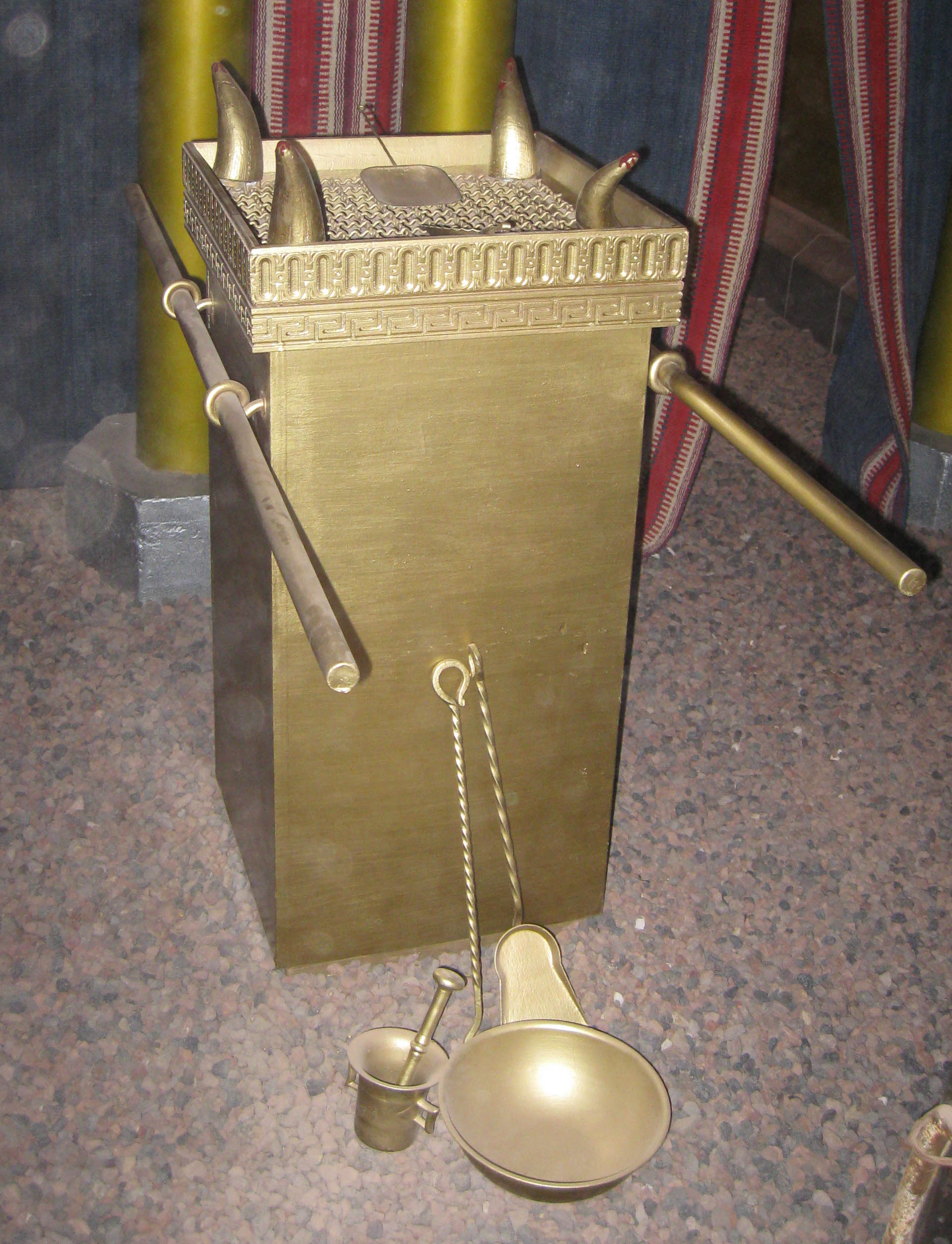 The Golden Altar, in a full size replica of the Israelite Tabernacle (Mishkan) in Timna valley, Israel.